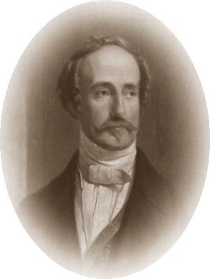 Leopold IV, Duke of Anhalt (1794-1871) was the first ruler of the united duchy of Anhalt.